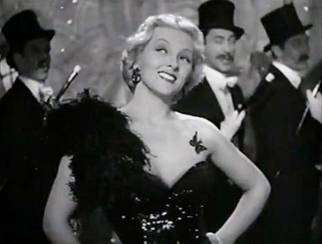 Ilona Massey in Balalaika (1939) - trailer (cropped screenshot)